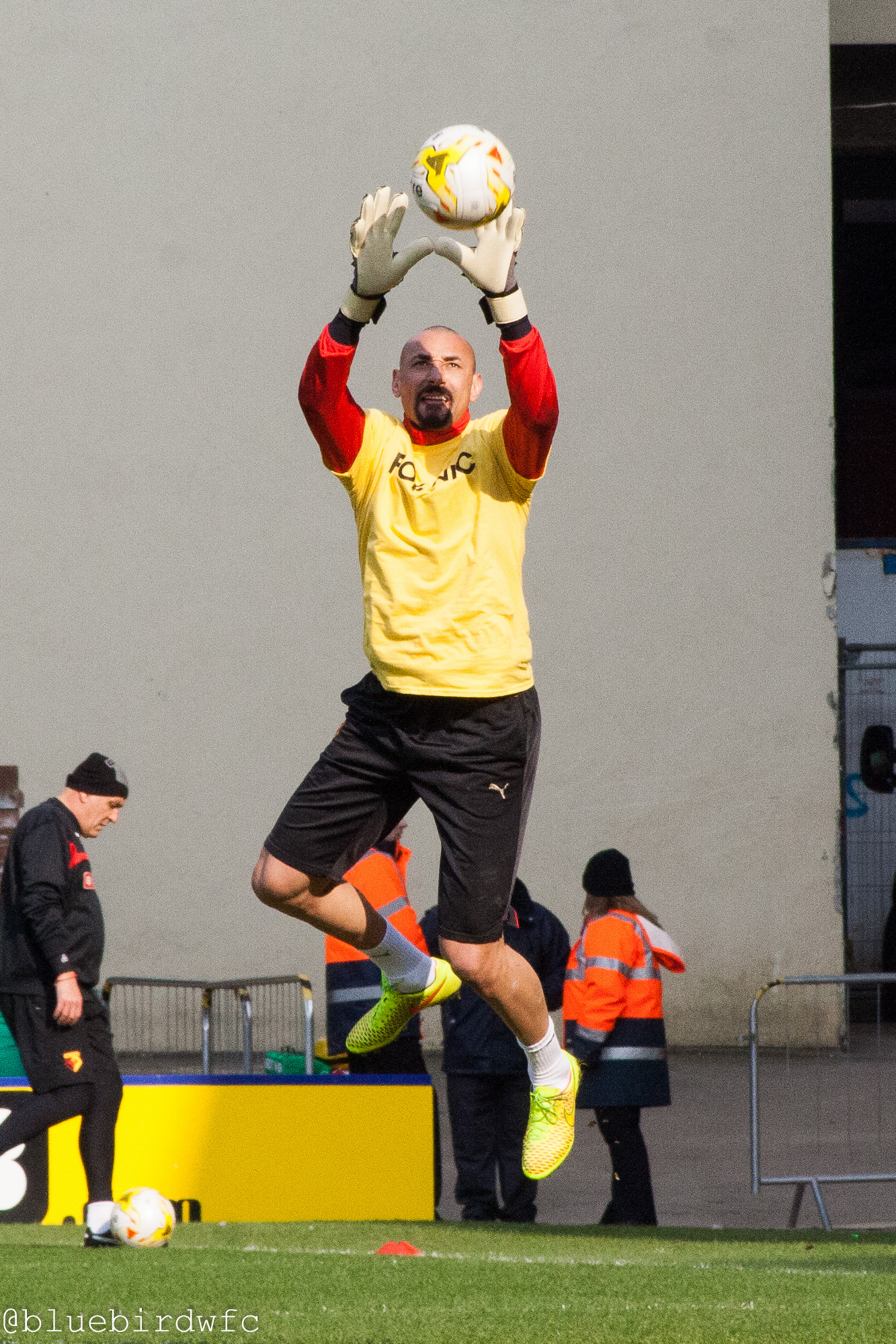 150314 Watford v Reading-86